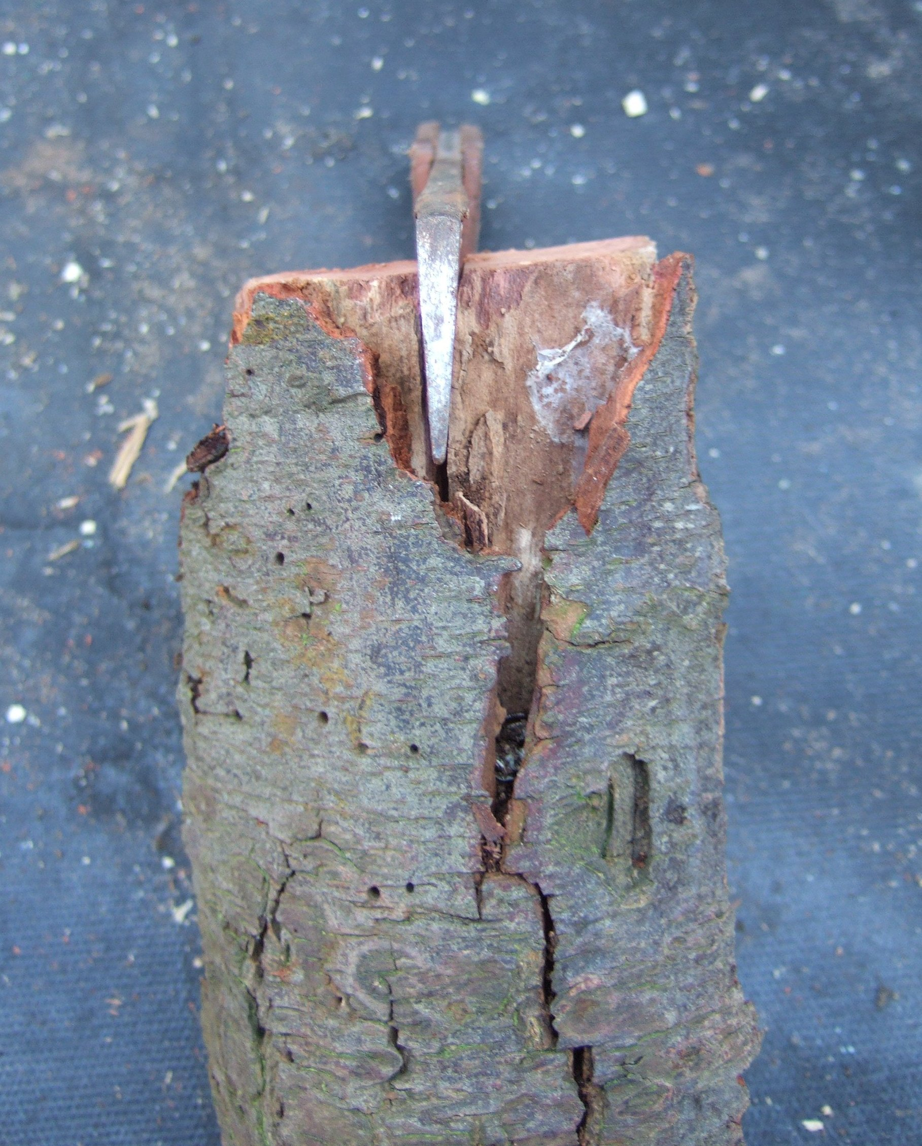 Hacking or side knife being used as a light froe to split a log into billets.